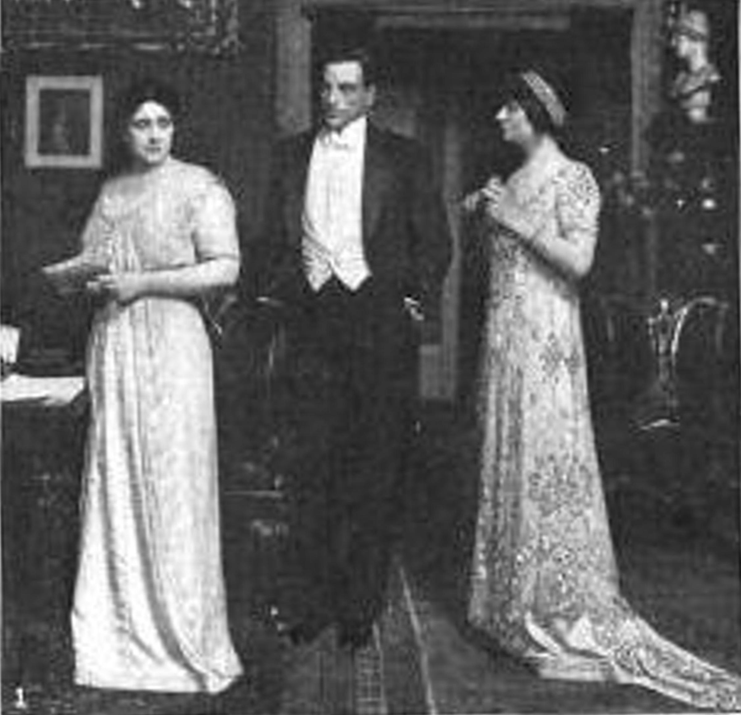 Gladys Hanson, Milton Sills and Teresa Maxwell-Conover (September 26, 1884 – September 1968) in The Governor's Lady by Alice Bradley